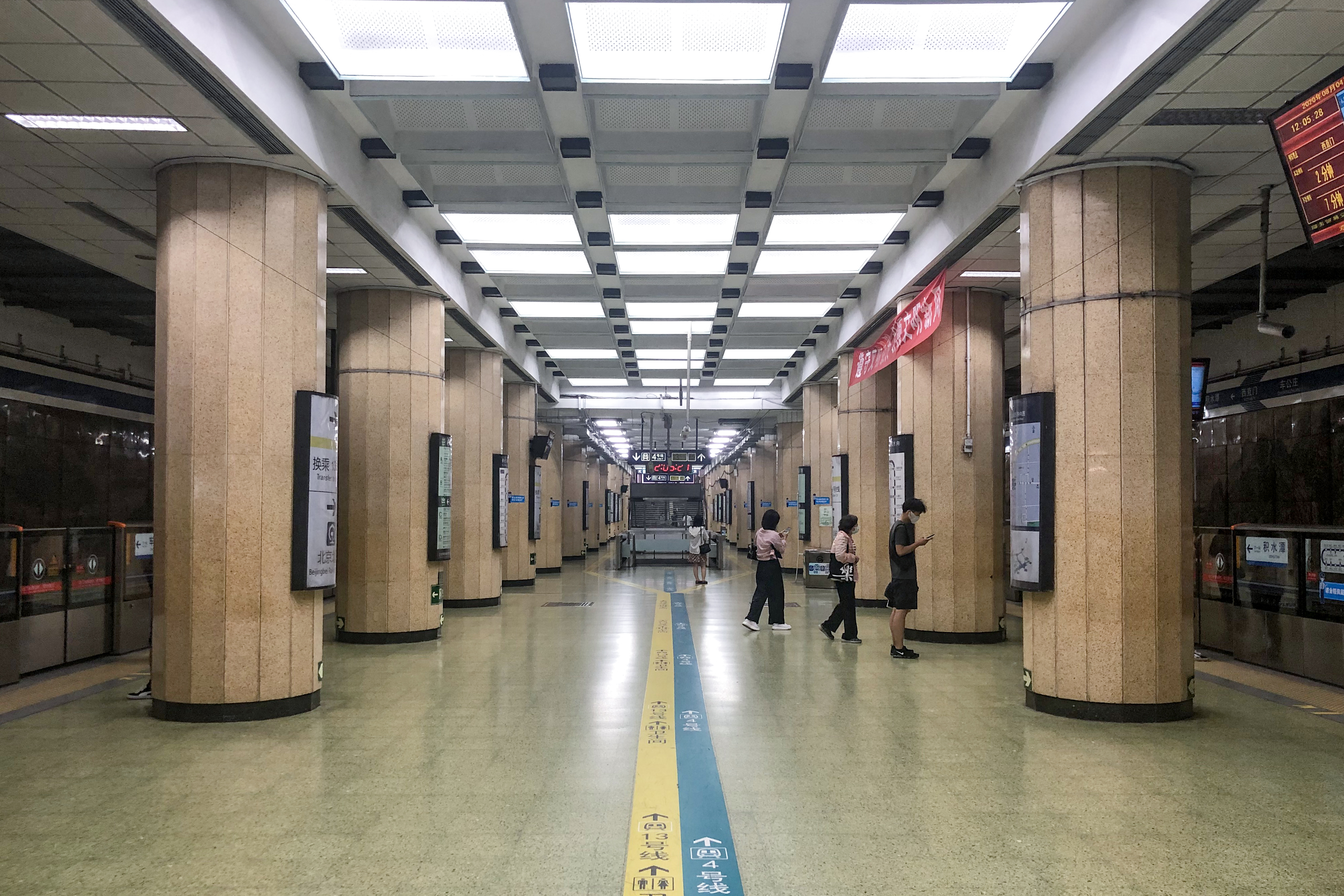 Caught a low peak...